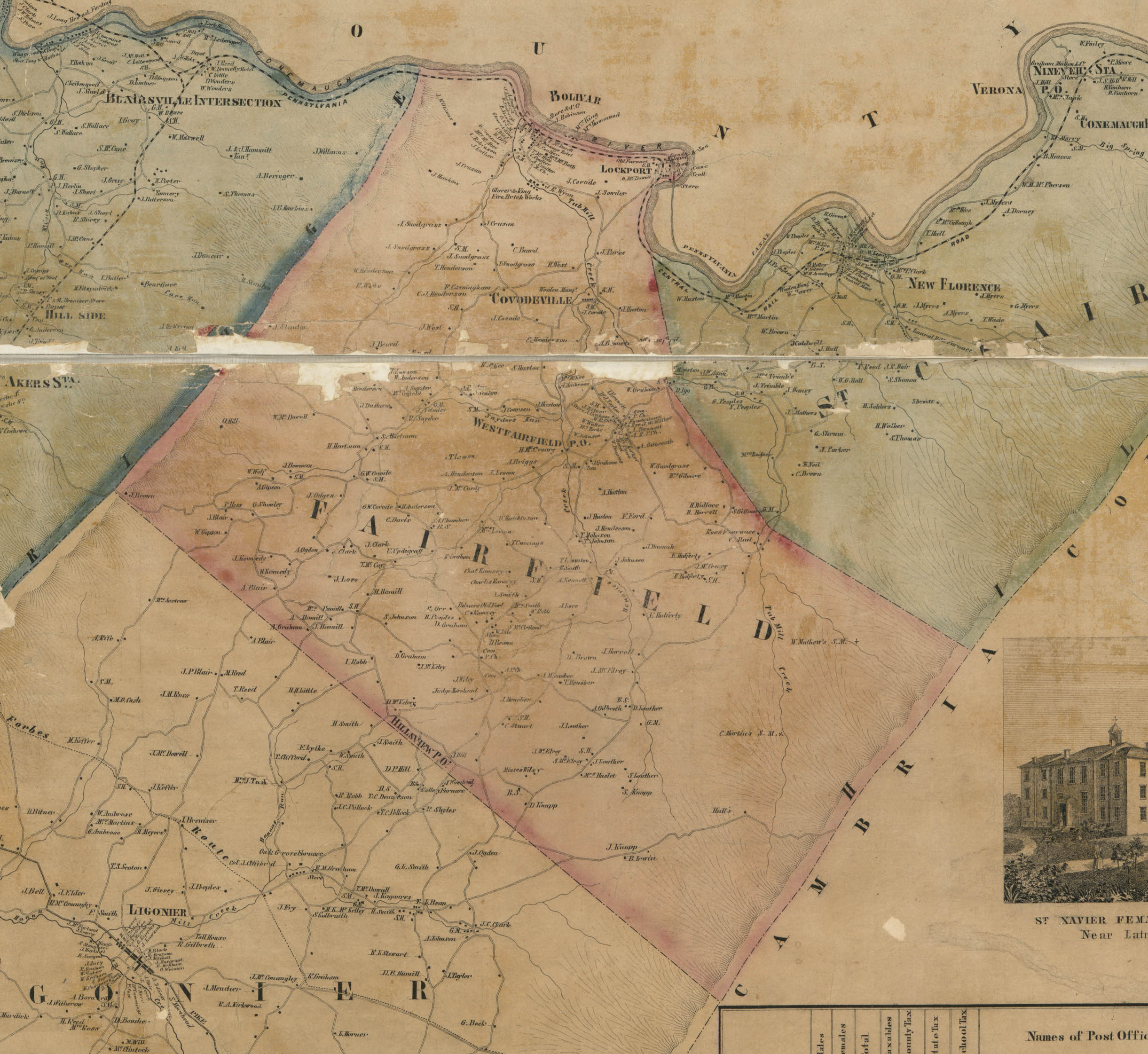 Map of Fairfield Township taken from 1857 William J. Barker map of Westmoreland County, Pennsylvania, available at the Library of Congress website